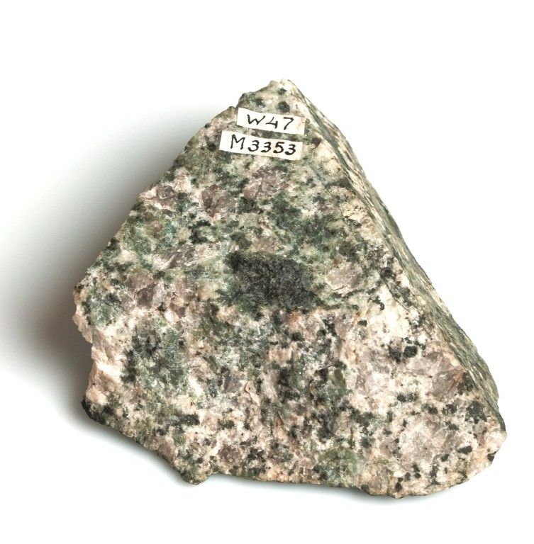 The tip of Mont Blanc. Biotite granite collected by Honoré-Benedicte de Saussure during the ascent of 1787. Purchased from in the summer of 1802 by Martinus van Marum for Teylers Museum. Collection Teylers Museum, Haarlem, The Netherlands.